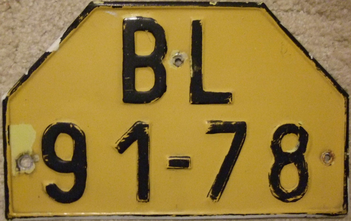 This plate though actually issued in Czechoslovakia was still used after Slovak independence. "BL" denotes Bratislava.